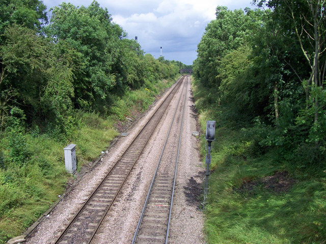 Railway towards the Refineries and Immingham Docks. This railway provides access to both the Killingholme refineries and Immingham Docks and is heavily used for the transportation of Iron ore and coal from the bulk terminal 416743.